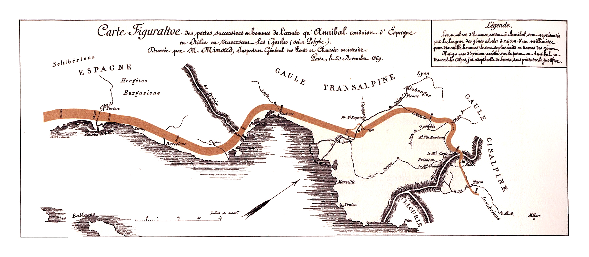 Map of the losses of Hannibal's army during the march from Spain to Italy in 218 BC.